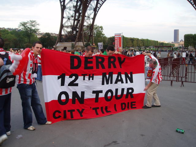 Derry City's 12th man on tour